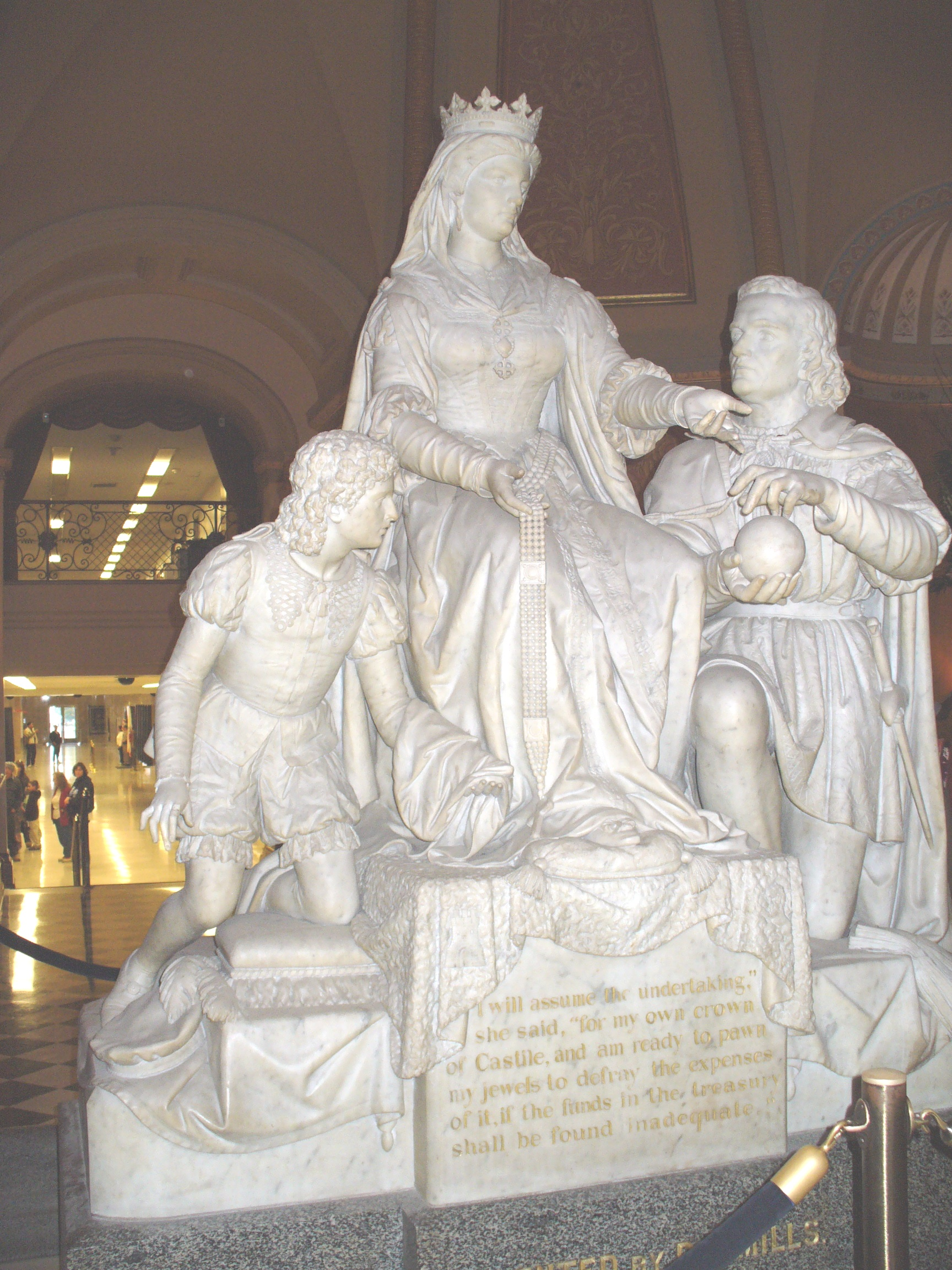 This statue is found inside the California State Capitol Building. It depicts a Spanish decision to finance a voyage to the new world.